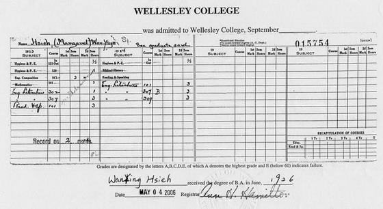 Bing Xin ,was one of the most prolific and esteemed Chinese writers of the 20th Century. Many of her works were written for young readers. She was the chairperson of the China Federation of Literary and Art Circles.